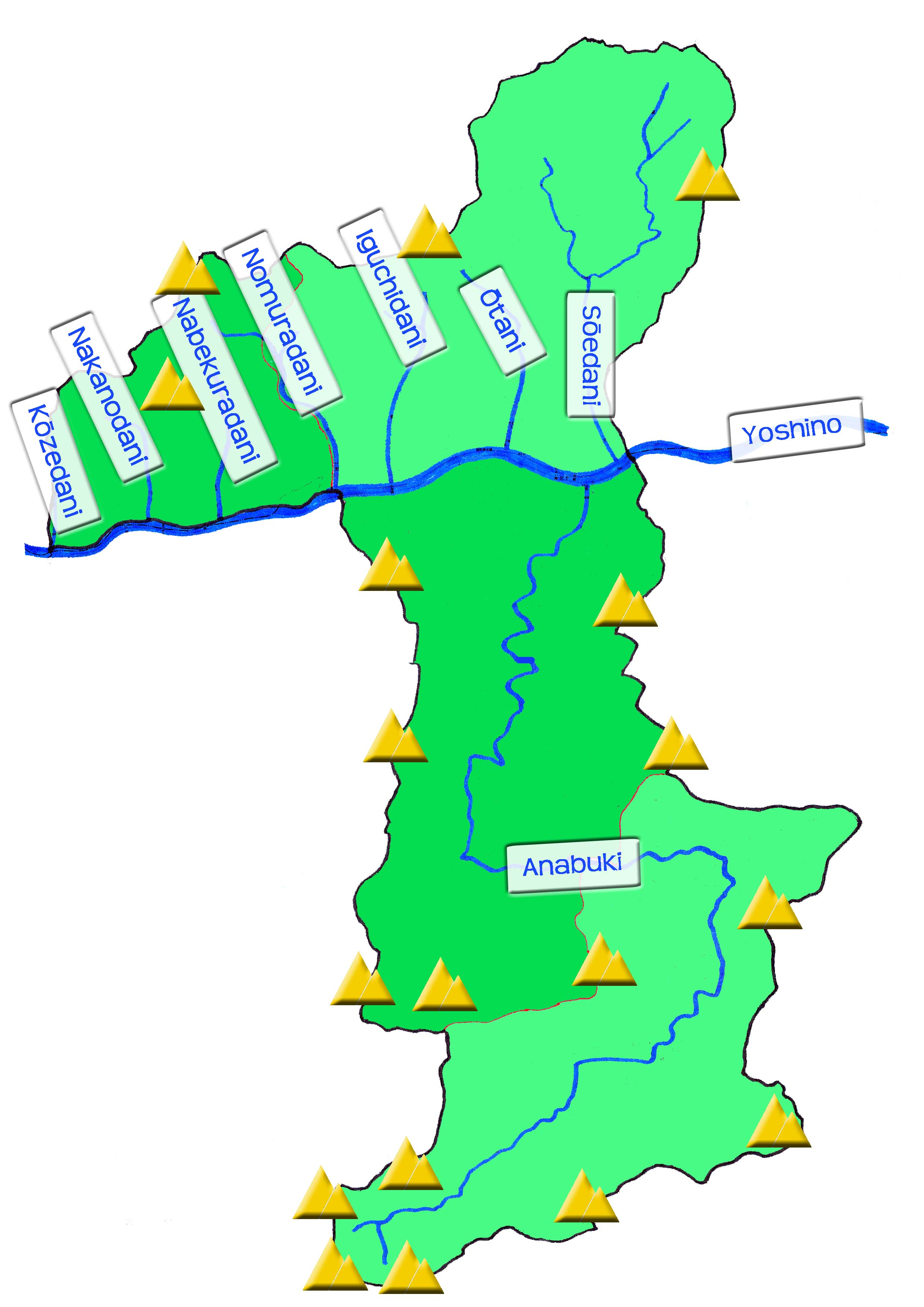 Rivers in Mima-shi, Tokushima-ken